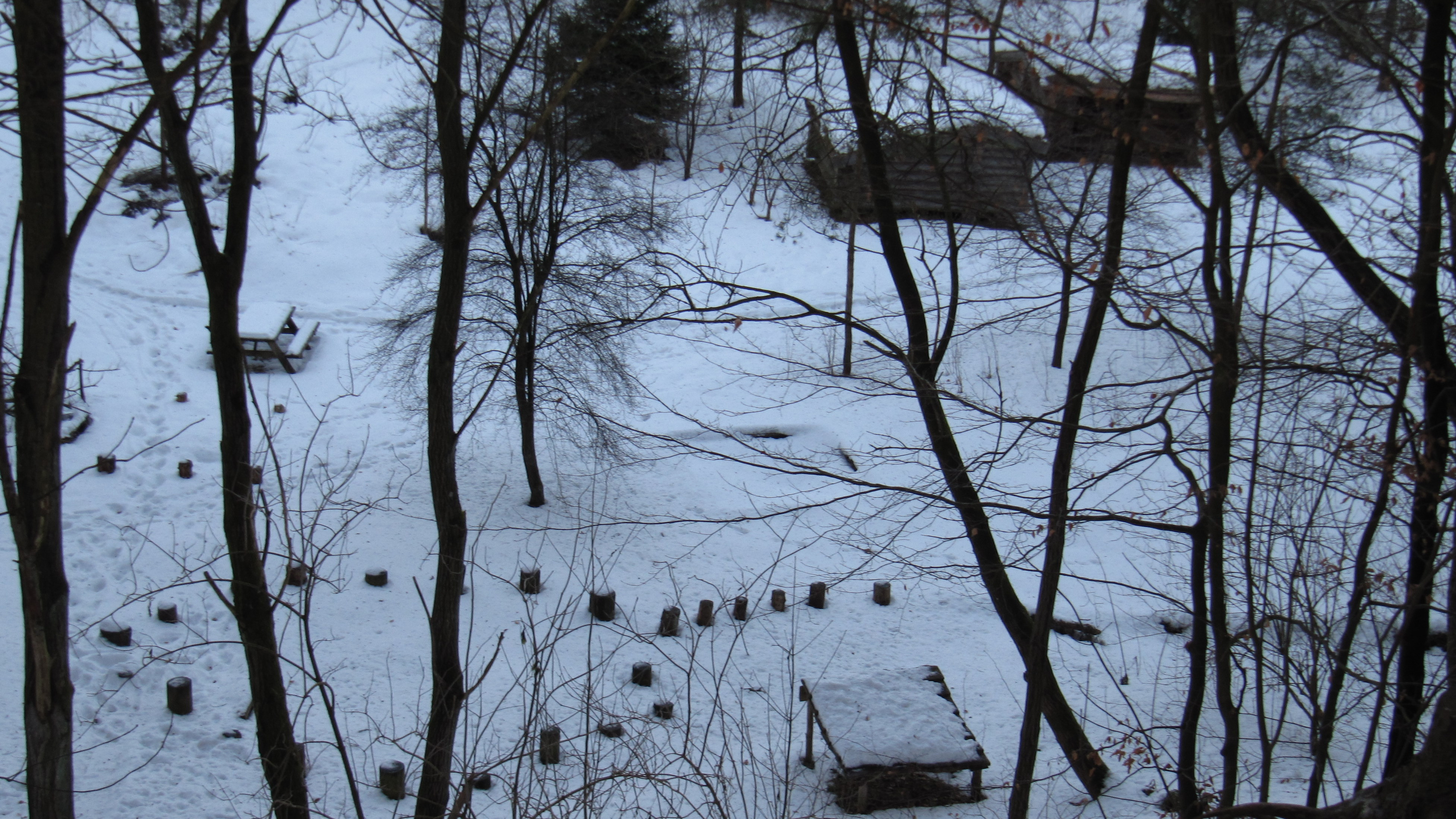 Shelters in the Aslund Forest near Vester Hassing